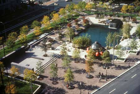 Aerial view of Pershing Park in Washington, D.C., in the United States.